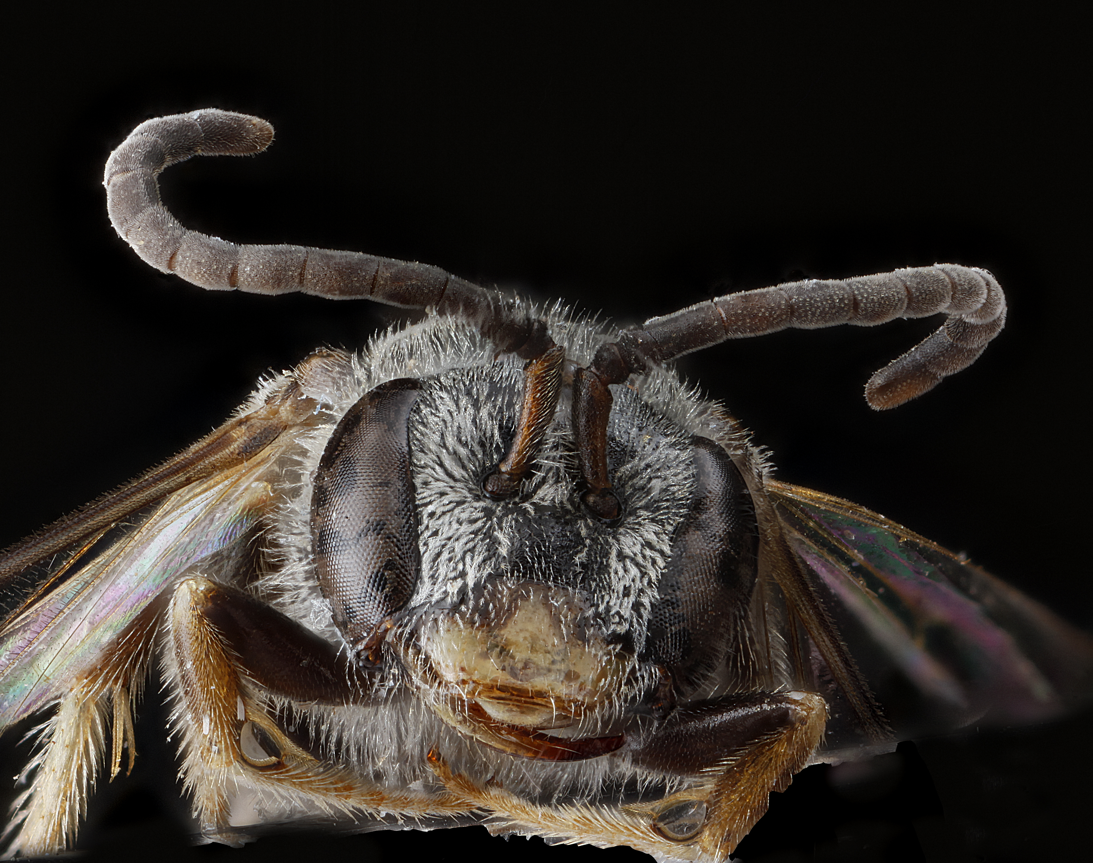 Lasioglossum sopinci, the undescribed male of this sand specialist, found along some lovely powerline habitat on Patuxent Wildlife Research Refuge